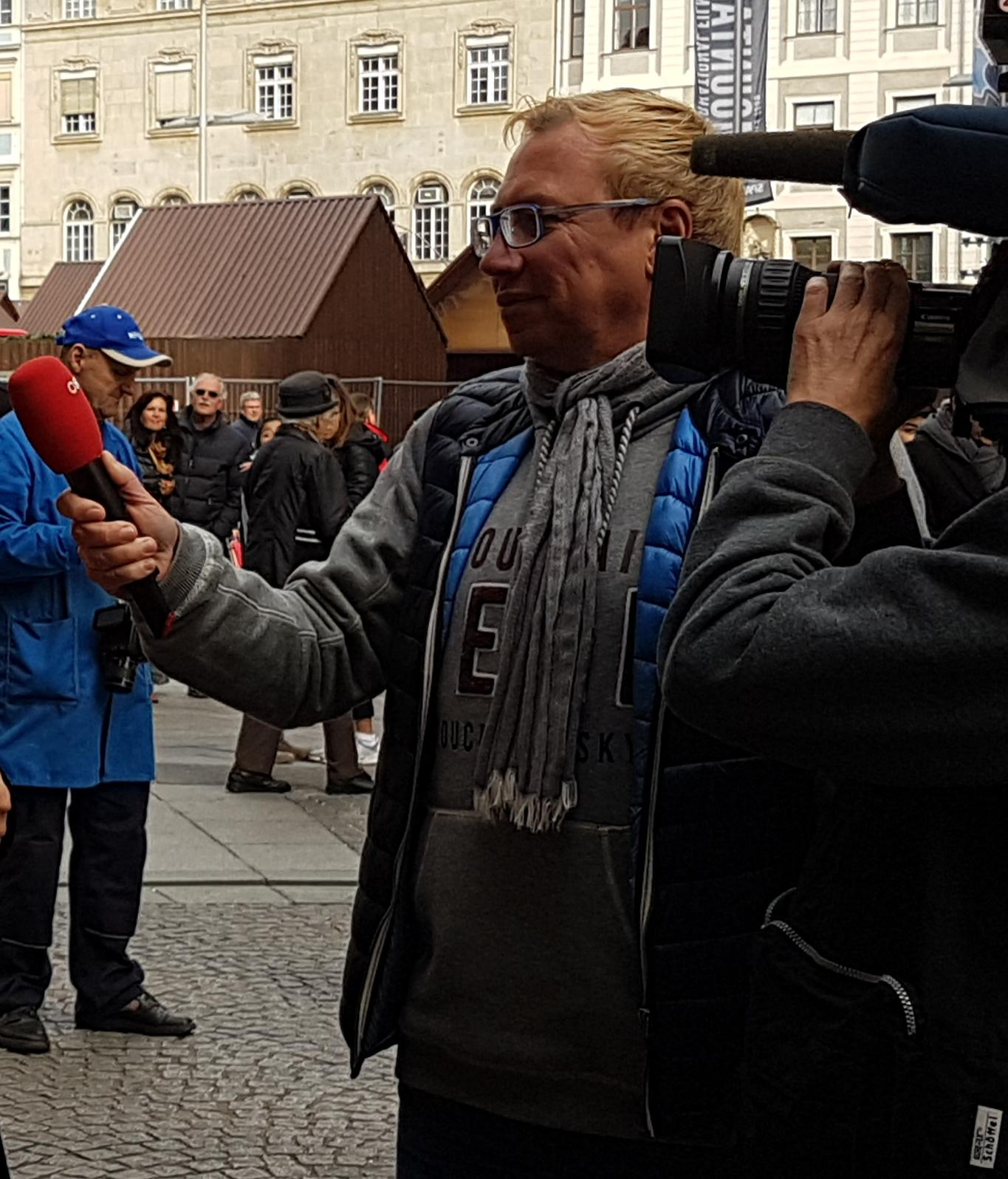 Paul Prattes during an interview in Graz